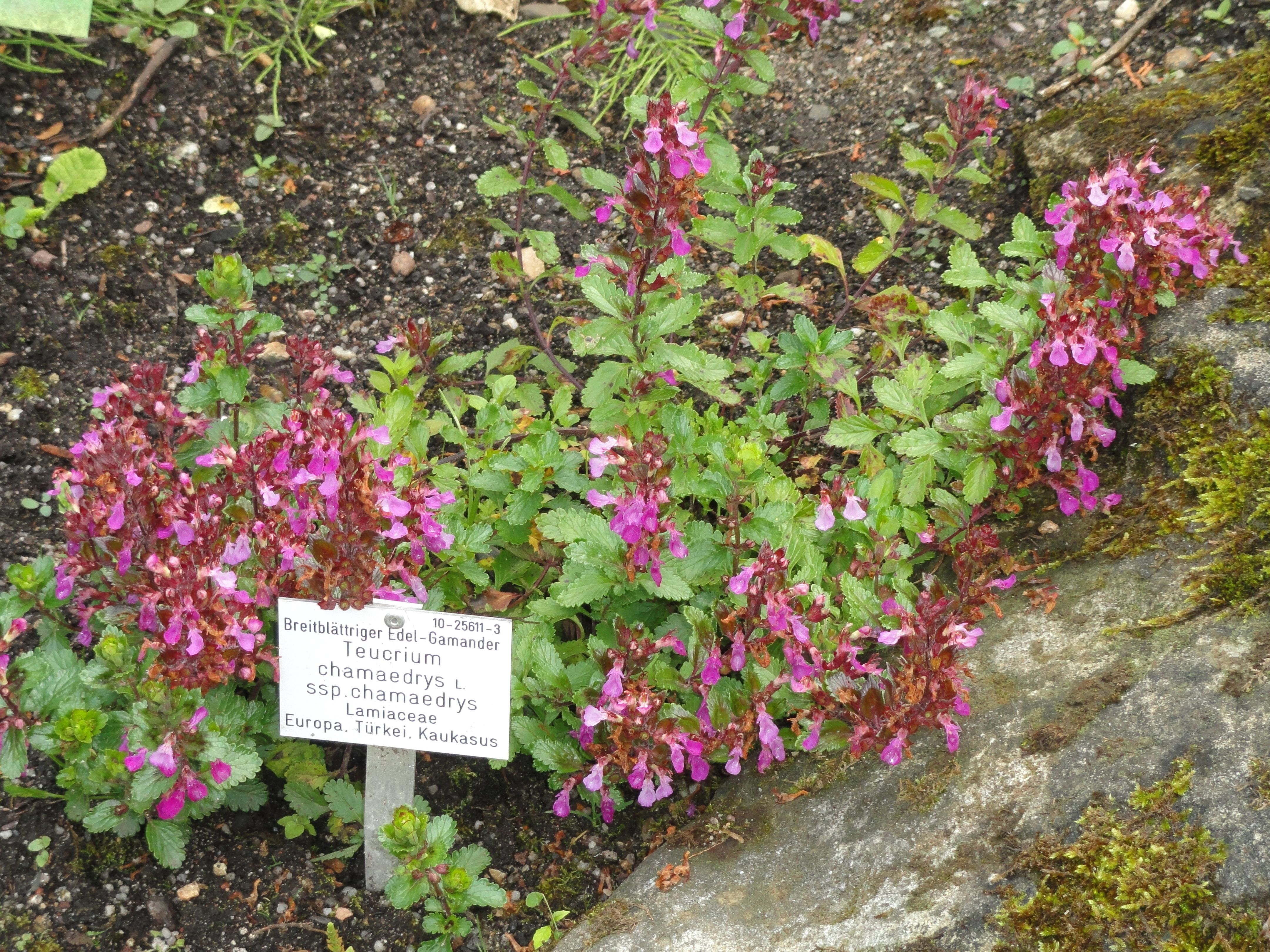 Botanical specimen in the Palmengarten, Frankfurt am Main, Germany.